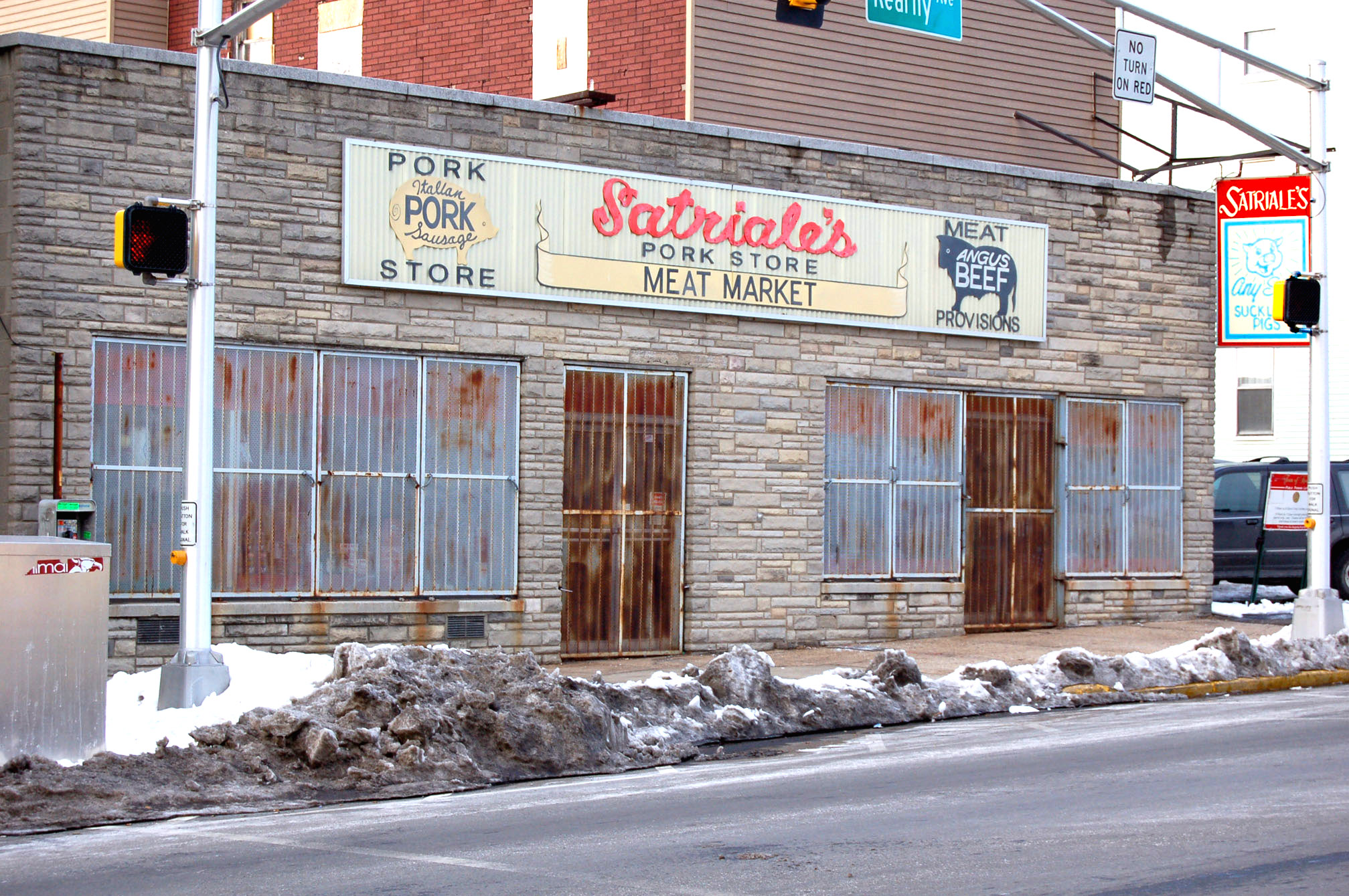 This building in Kearny, NJ is owned by HBO - it is a fully dressed set, as featured in The Sopranos. The pig is only placed on the roof when they are shooting, due to theft.